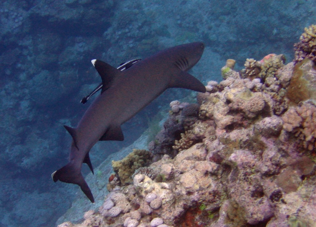 A Whitetip Reef Shark (Triaenodon obesus) with Slender Suckerfish (Echeneis naucrates). West Wall, Osprey Reef, Coral Sea